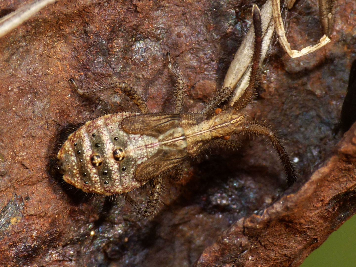 Coriomeris denticulatus part of series of images showing nymph and resulting imago Location: Limburg, Netherlands